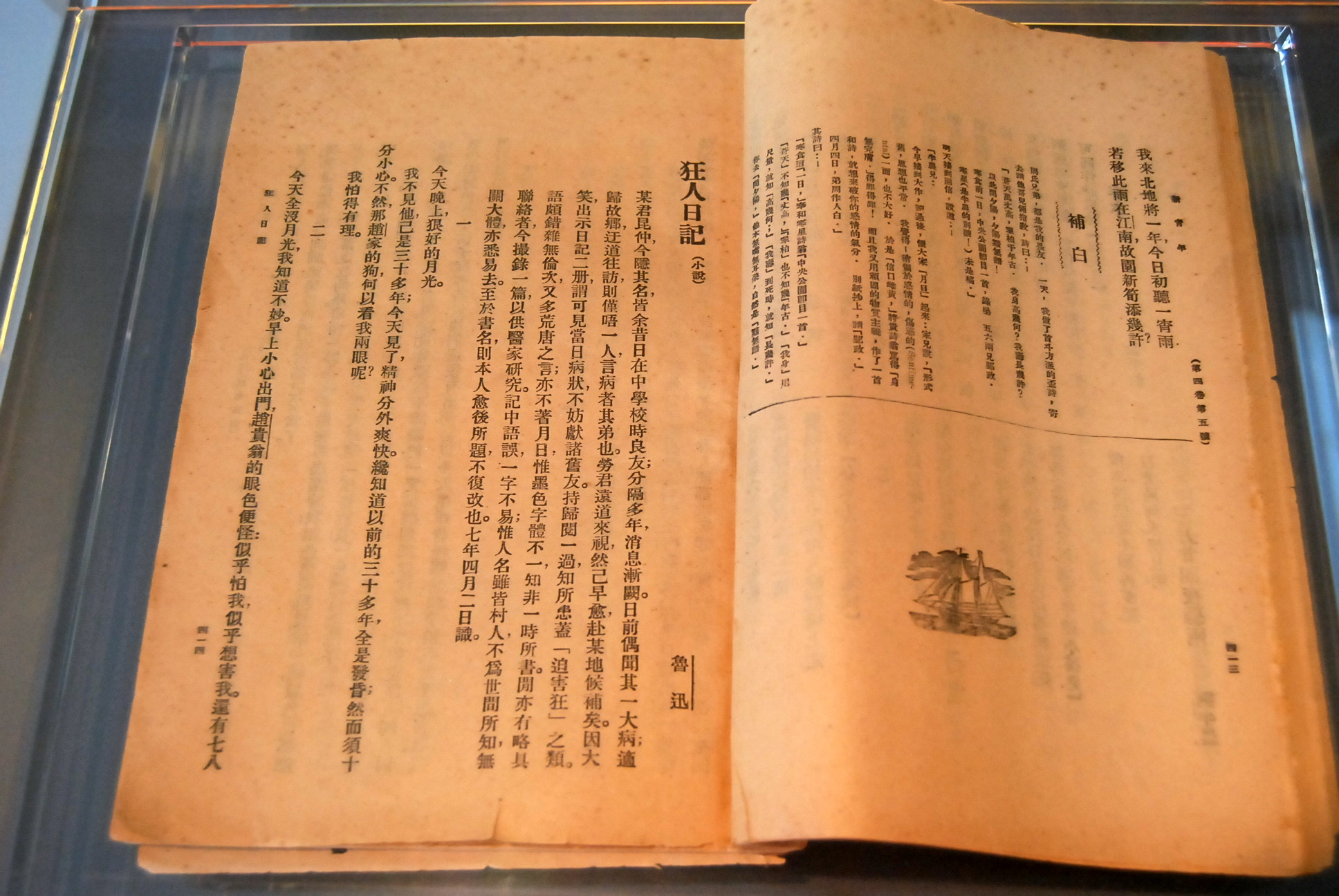 A Madman's Diary, published in the La Jeunesse (New Youth) magazine Volume 4, Issue 5, now in the collection of the Beijing Lu Xun Museum